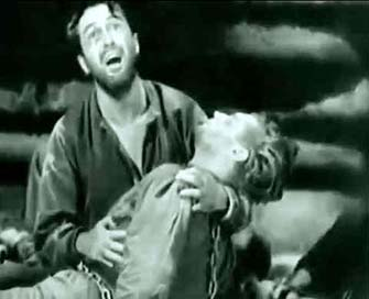 Lester Vail and Ralph Forbes in the prison pit in Beau Ideal (1931).